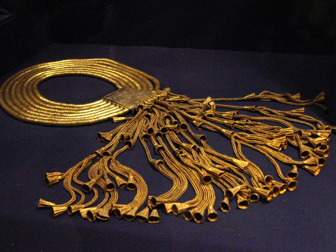 A gold and lapis lazuli collar of king Psusennes I originally found in his tomb at Tanis. Attached to its clasp are gold chains with tassels and floral pendants. This item is now located in the Cairo Museum. (Source: Jaromir Malek, Egypt: 4000 years of Art, Phaidon Press, 2003. p.276)